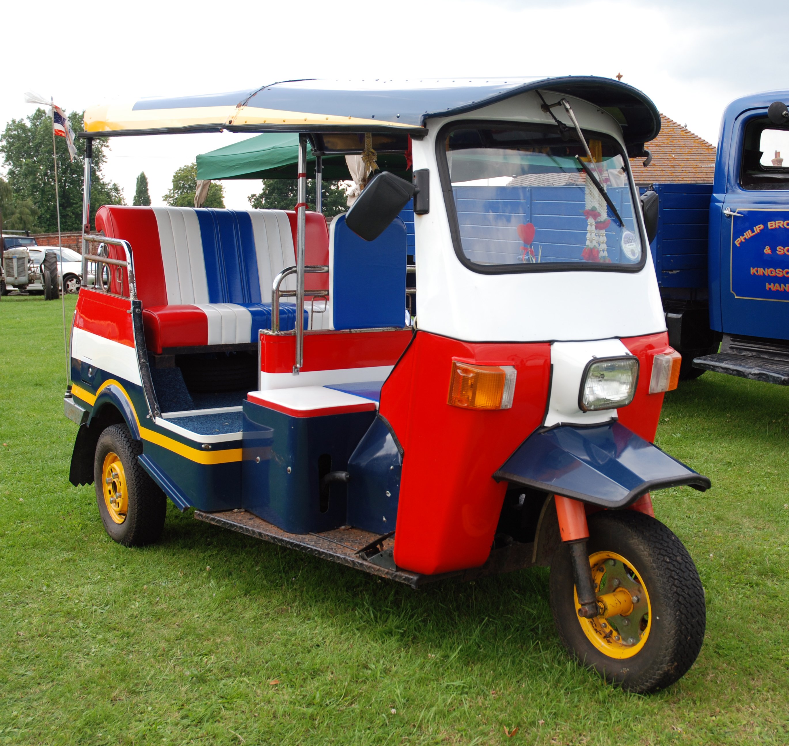 Newbury,Aug 2009